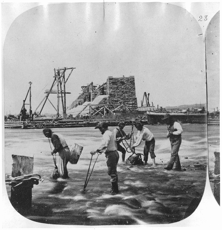 VIEW-7023.0 Men destroying coffer dam crib, Victoria Bridge, Montreal, QC, 1859 William Notman (1826-1891) 1971, 20th century Notman photographic Archives - McCord Museum VIEW-7023.0 Hommes détruisant un caisson-batardeau, pont Victoria, Montréal, Qc, 1859 William Notman (1826-1891) 1971, 20e siècle Archives photographiques Notman - Musée McCord To see the image file on the McCord Museum website, click on the following link: Pour voir la fiche descriptive de cette photographie sur le site Web du Musée McCord, cliquer le lien suivant